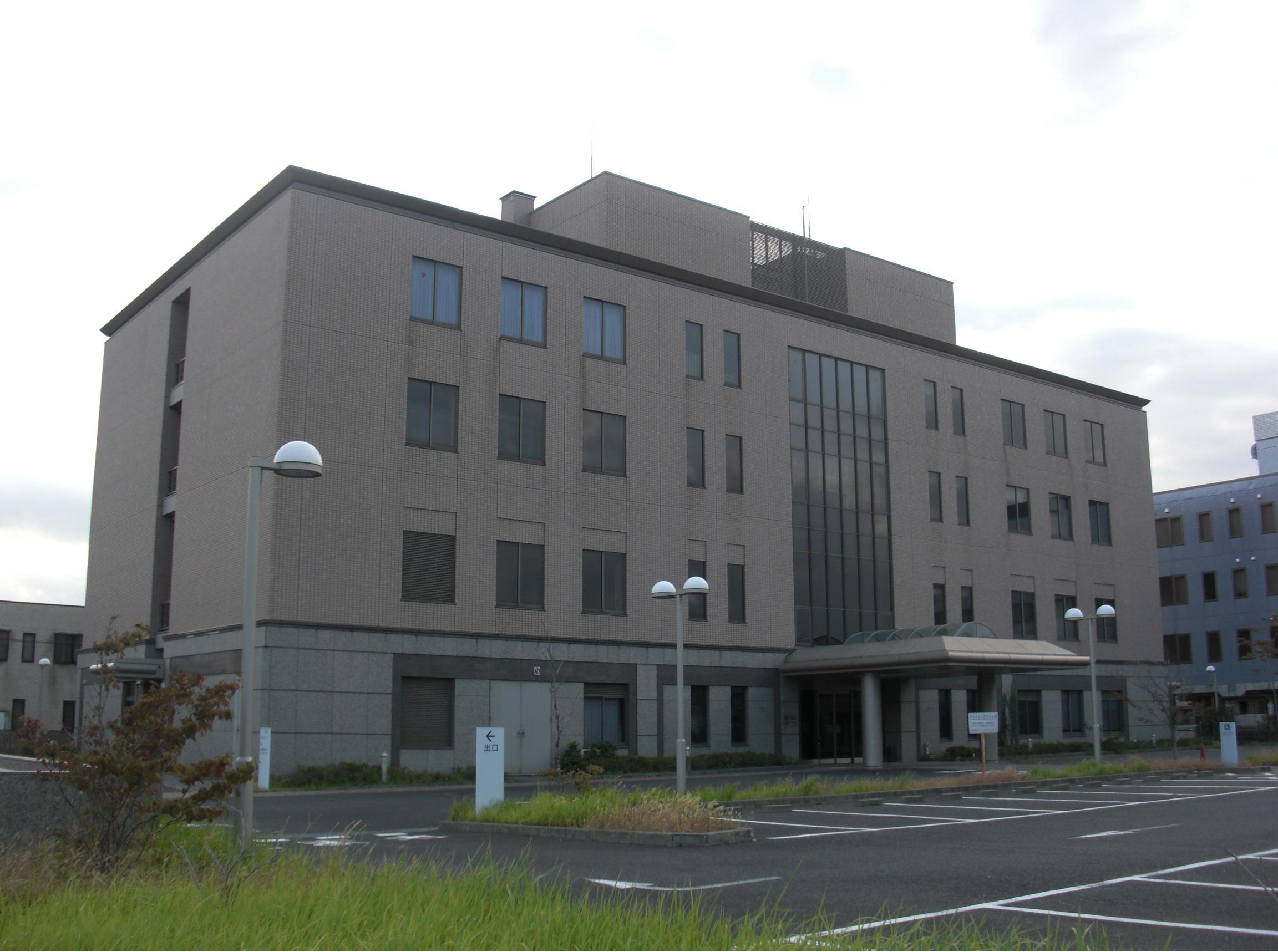 This is the court which is in Kisarazu, Chiba, Japan.